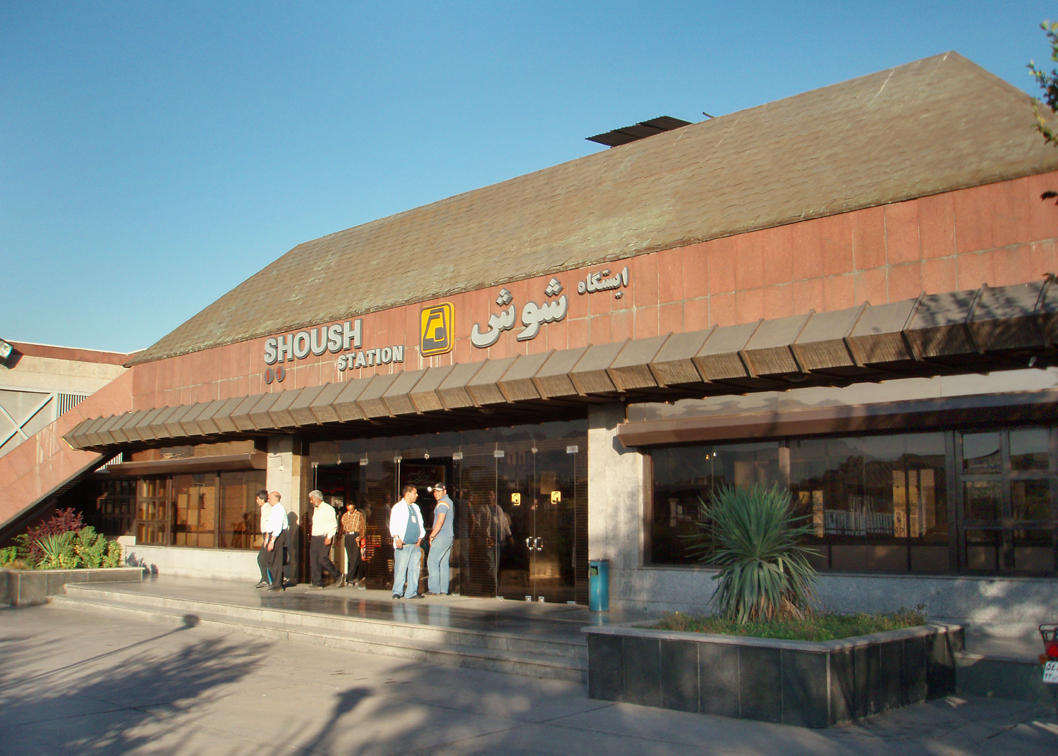 Entrance to Shush station of Teheran Metropolitan.